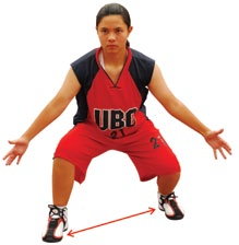 basketball